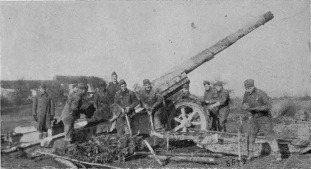 Crew and 155mm GPF heavy field gun, of Battery F, US 55th artillery (C.A.C.), France, 1918.